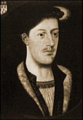 Probably Sir Francis Weston, gentleman of the Privy Chamber and friend of King Henry VIII. He was accused of adultery with Anne Boleyn on trumped-up charges and executed in 1536. The picture bears the Weston arms: Ermine, on a chief azure 5 bezants with the inscription “Weston Esq. of Sutton, Surrey”, which is why many believe it to be of Francis Weston. Collection of Parham Park, Sussex.